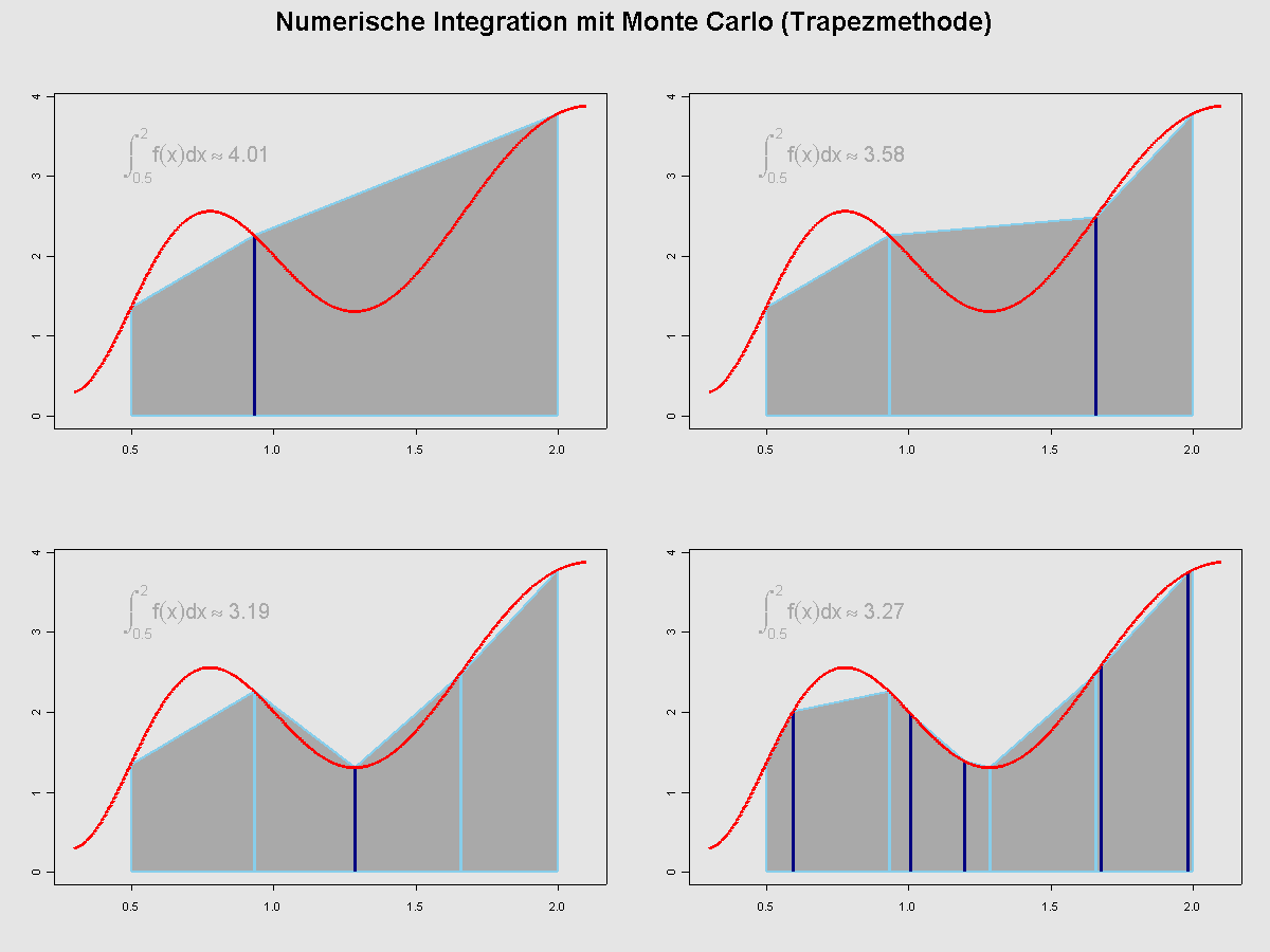 numerical intergration with monte carlo. new points are dark blue (navy), old points are skyblue. points/nodes are uniform distributed over the integration interval. the value of the integral tends to 3,32.